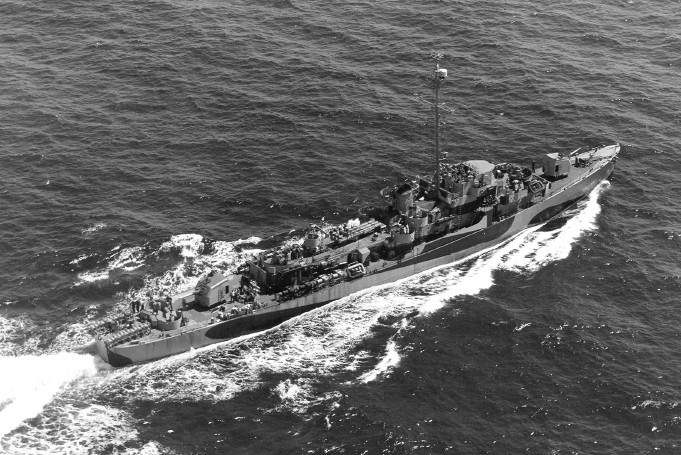 A second aerial photo of Oliver Mitchell this time 50 miles east of Cape Cod from squadron ZP-11 on August 20, 1944. The deck pattern can be seen.